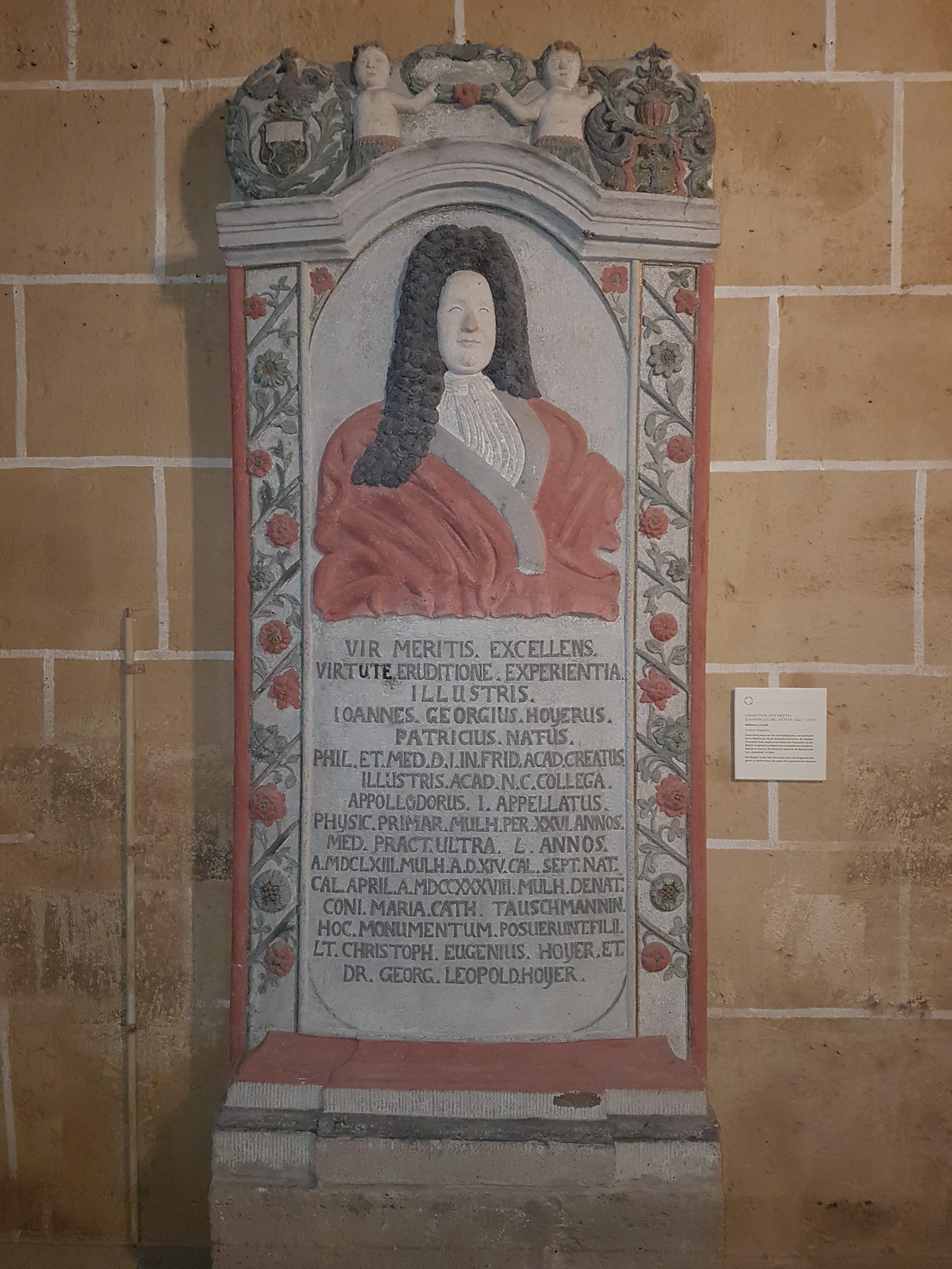 Johann Georg Hoyer epitaph